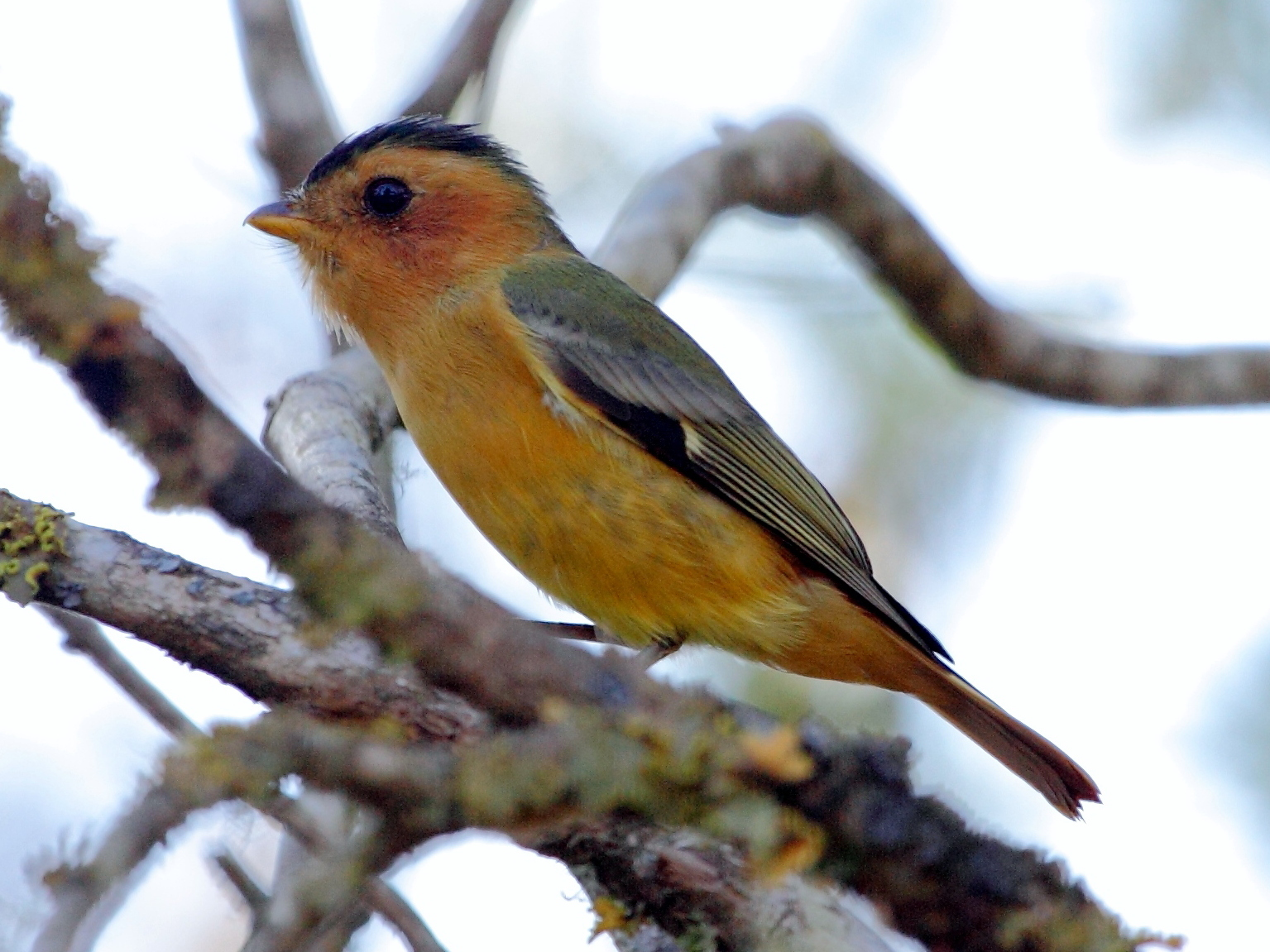 Black-capped Piprites (female) at Campos do Jordão - SP - Brazil